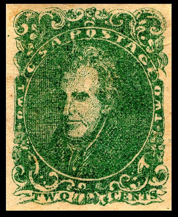 Confederate Postage stamp, Andrew Jackson, 1862 issue, 2c, green